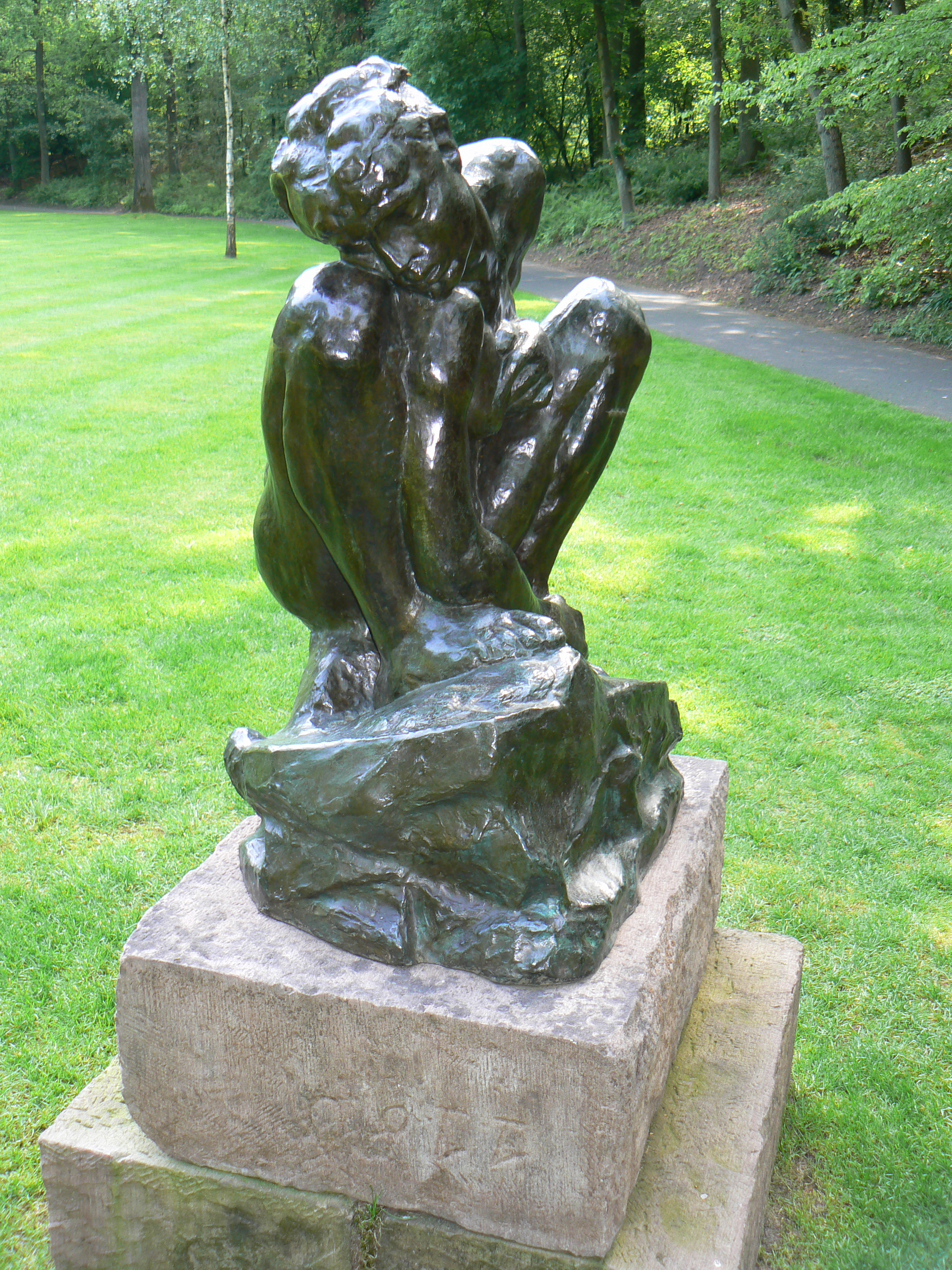 sculpture Femme accroupie (1882) by Auguste Rodin in KMM Sculpturepark/The Netherlands